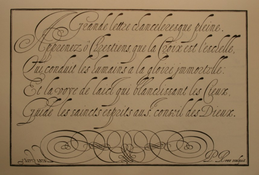 Calligraphy example